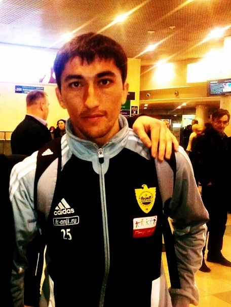 Odil Ahmedov